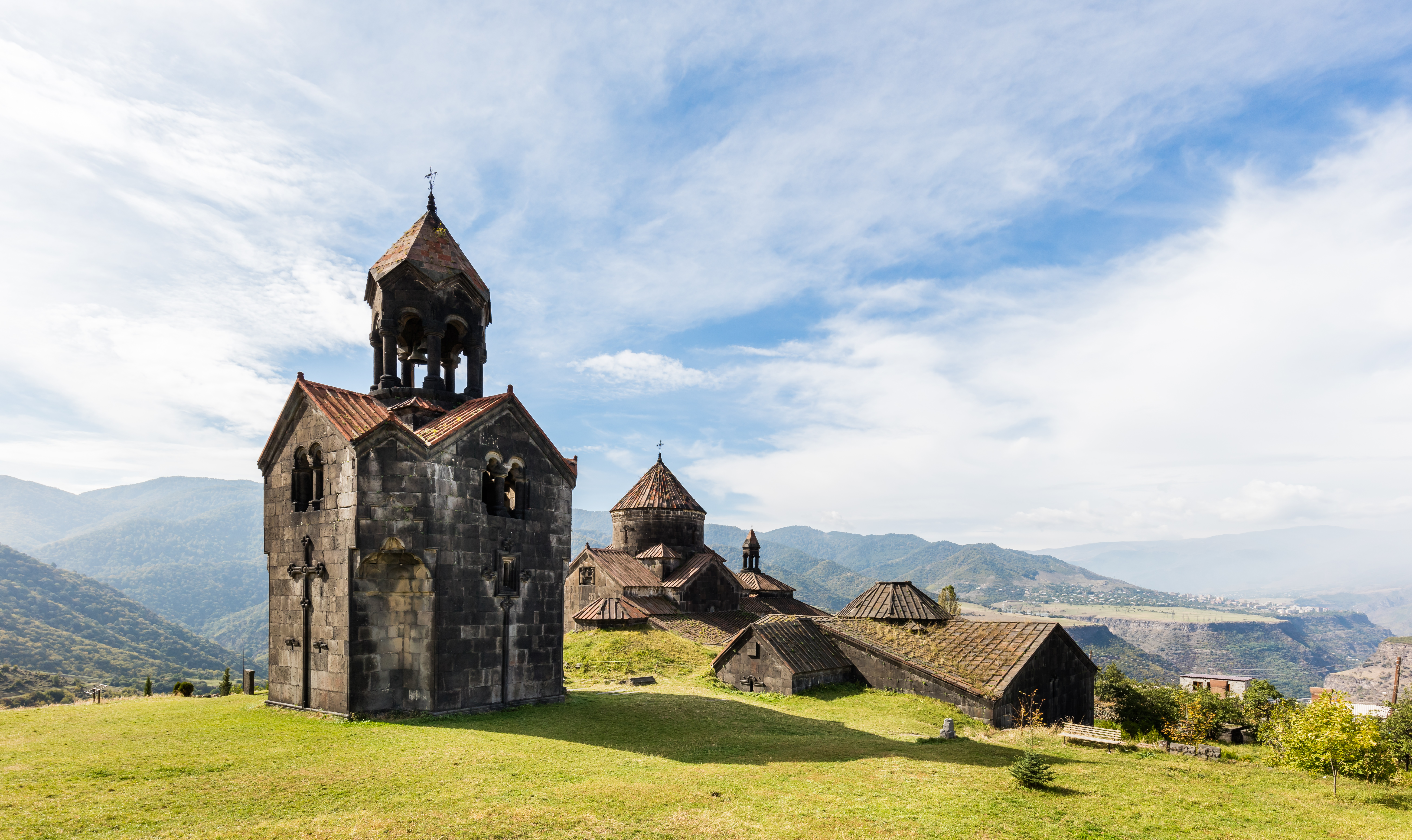 Haghpat Monastery, Armenia